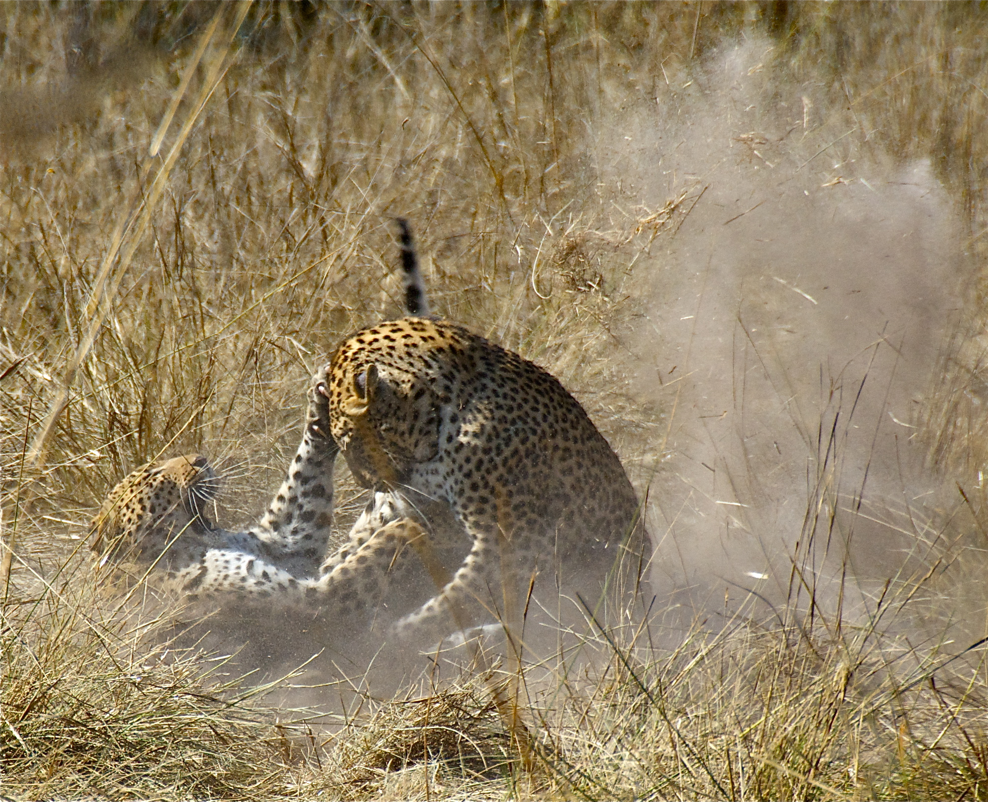 Kicking up dust and sending grass flying. This is the last post in a series on this couple, spanning a couple days. The beginning is here. She was in estrus, and he was too young to mate. Both are three years old, and his prime will be around 5-6 years old. He needs to be able to mate several times with her and defend against other males, so he is focusing more on protecting his buffalo kill than mating this year. This all led to some prolonged encounters and fireworks. On this second encounter, we first spotted her in the tree and watched the romance unfold for about a half hour before our friend’s vehicle arrived. They were at a slightly different angle, and I like these shots by Kim more than my own, and she gave them to me to share. Both of the guides say they have never seen anything like that before. The leopard is a solitary creature, rarely seen in pairs except to mate.